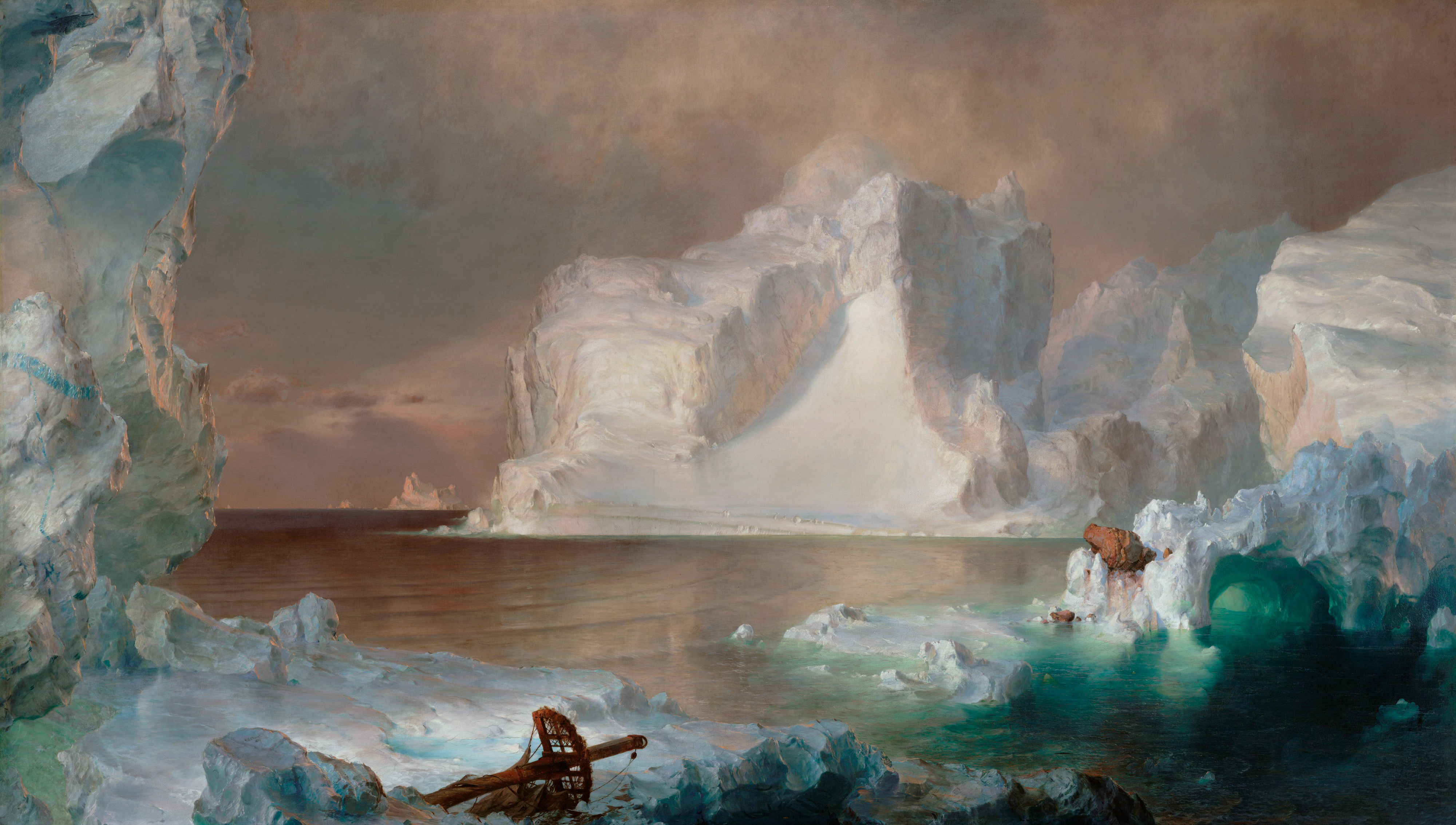 The largest of Frederic Edwin Church's paintings of icebergs. Will be on display at the Smithsonian American Art Museum through April 2013, followed by an exhibition at the Metropolitan Museum of Art through September 2013, when it will be returned to the Dallas Museum of Art (see image source below).